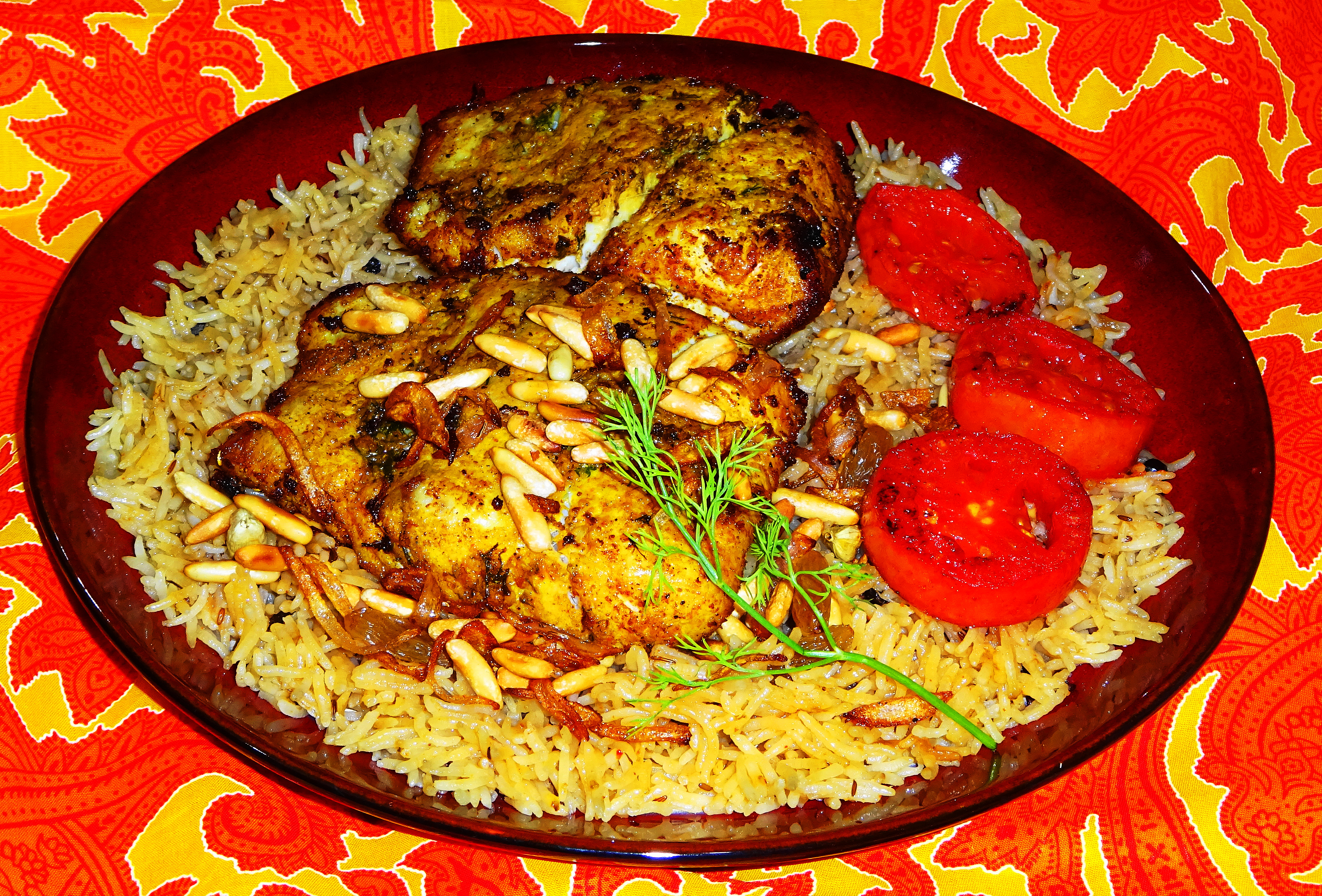 Sayadieh, Sayadiyah